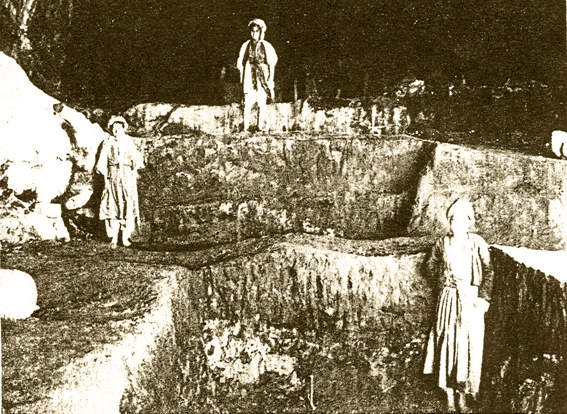 Hazar Merd cave during excavation by Garrod in Kurdistan